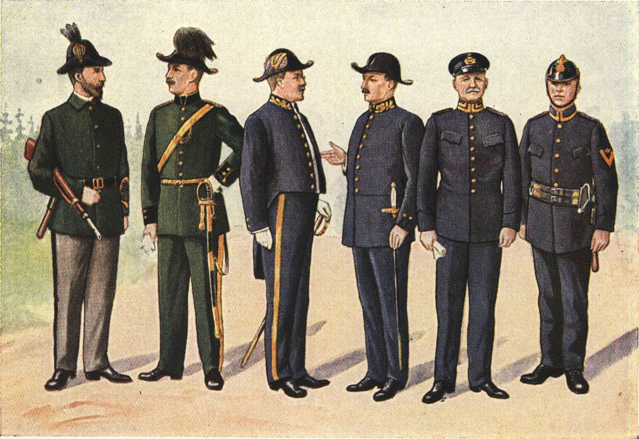 Swedish civil uniforms.